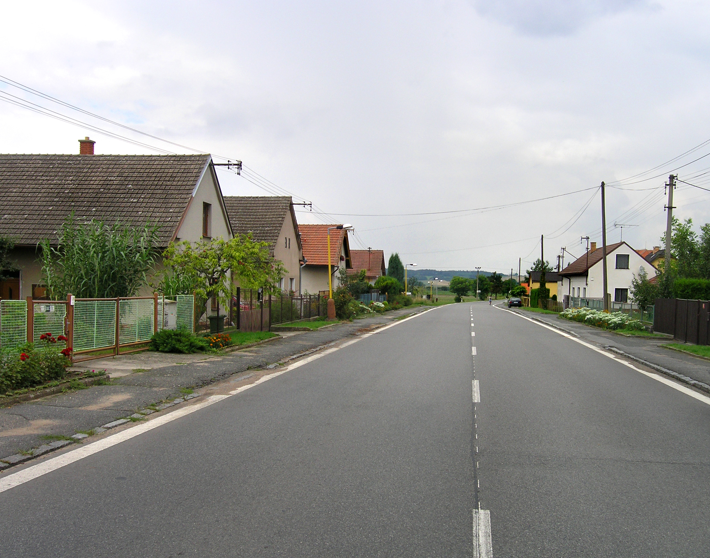 Road No I/2 in Svatý Mikuláš, Czech Republic